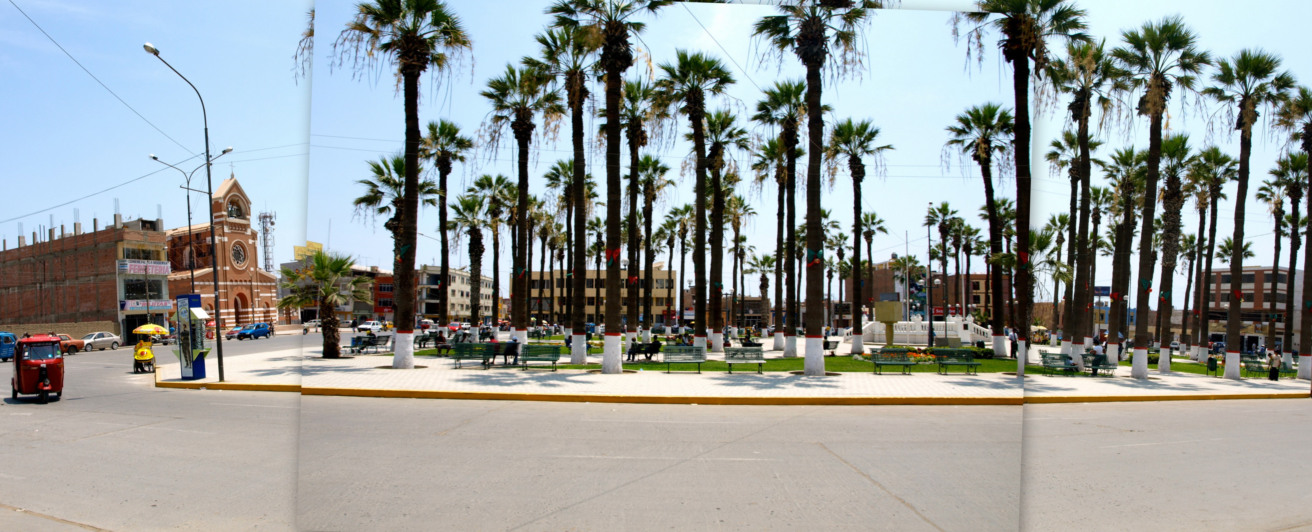 Chincha Armas Square Place Lloc/Place: Chincha, Perú